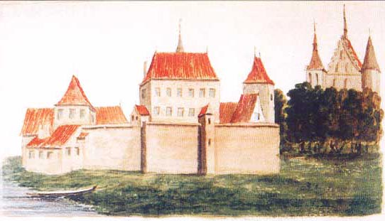 Castle in Włocławek, built in XIV century, on the picture made by secretary of dutch envoys Abraham Boot between 1627 and 1628 year. Nowadays in this place is Bishops Palace.